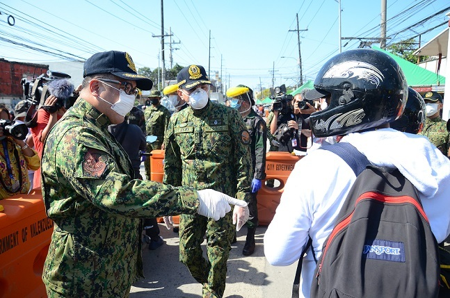 Camp Olivas, City of San Fernando, Pampanga- PLTGEN GUILLERMO ELEAZAR joined PRO3 Regional Director PBGEN RHODEL SERMONIA in the inspection of control points at the Meycauayan - Valenzuela boundary, Bocaue Toll Plaza and Fields Avenue in Angeles City, yesterday morning (March 19) to ensure that proper guidelines are constantly being observed by PNP personnel to prevent the spread of the coronavirus disease 2019 in the country.